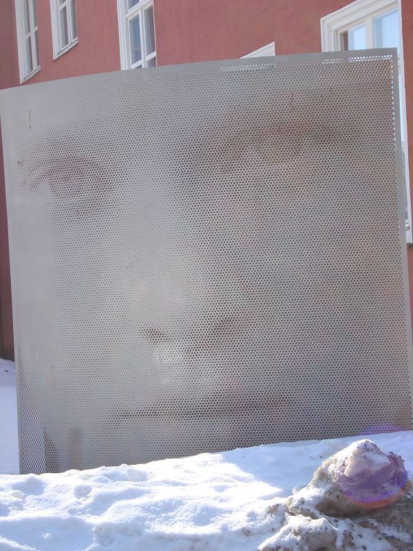 Umeå sculpture park/Sweden with Utan titel (2002) by Anne-Karin Furunes.